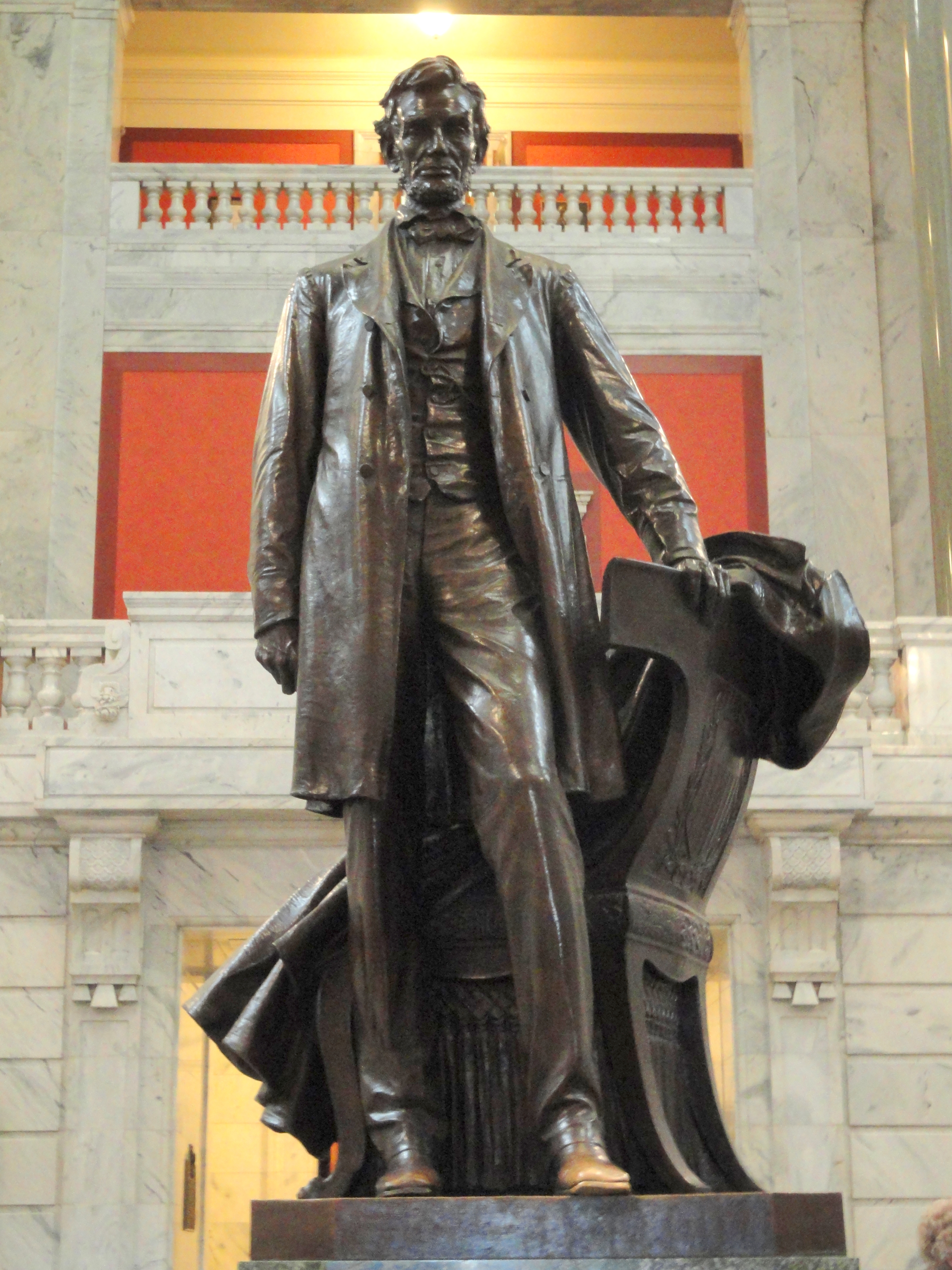 Statue of Abraham Lincoln by Adolph Alexander Weinman, within the Kentucky State Capitol, Frankfort, Kentucky, USA. Created in 1911. This artwork is now in the public domain because first published in the United States before 1923.